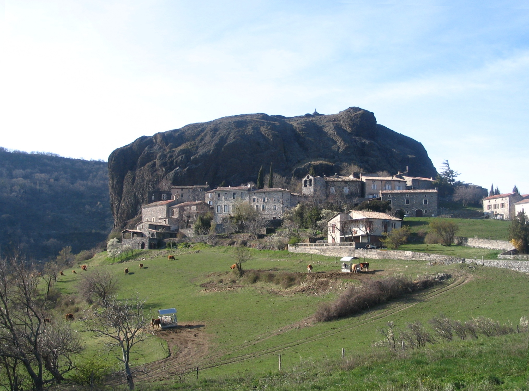 The village of Sceautres, in the département Ardèche, France